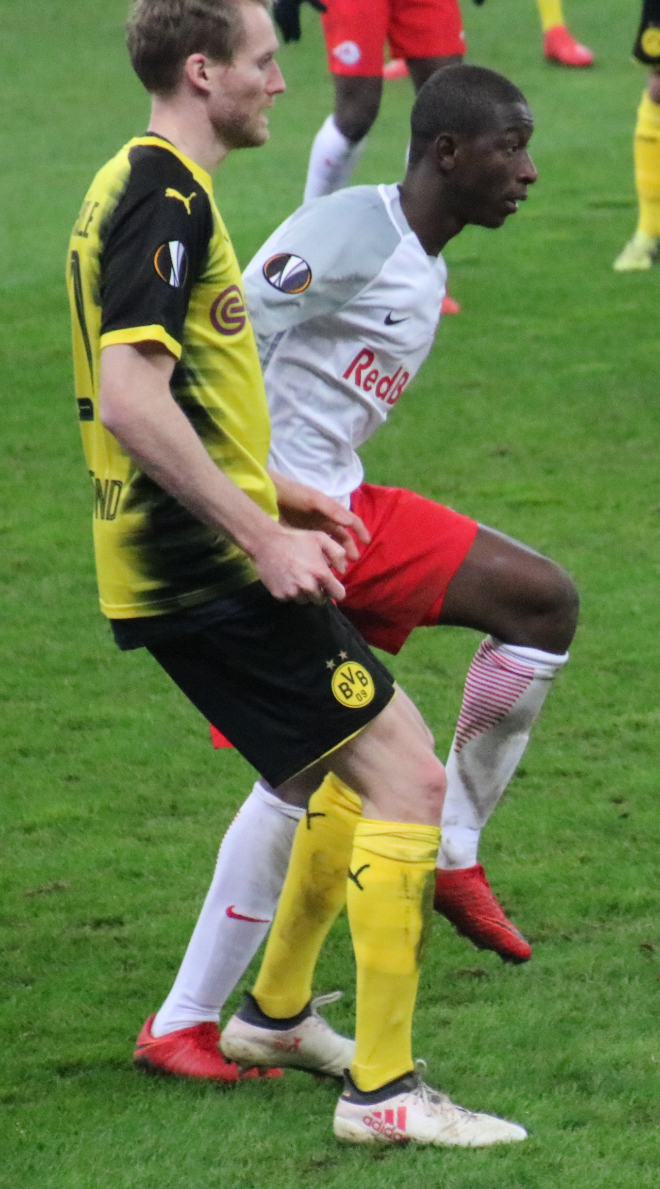 UEFA Euro League Achtelfinale Rückspiel